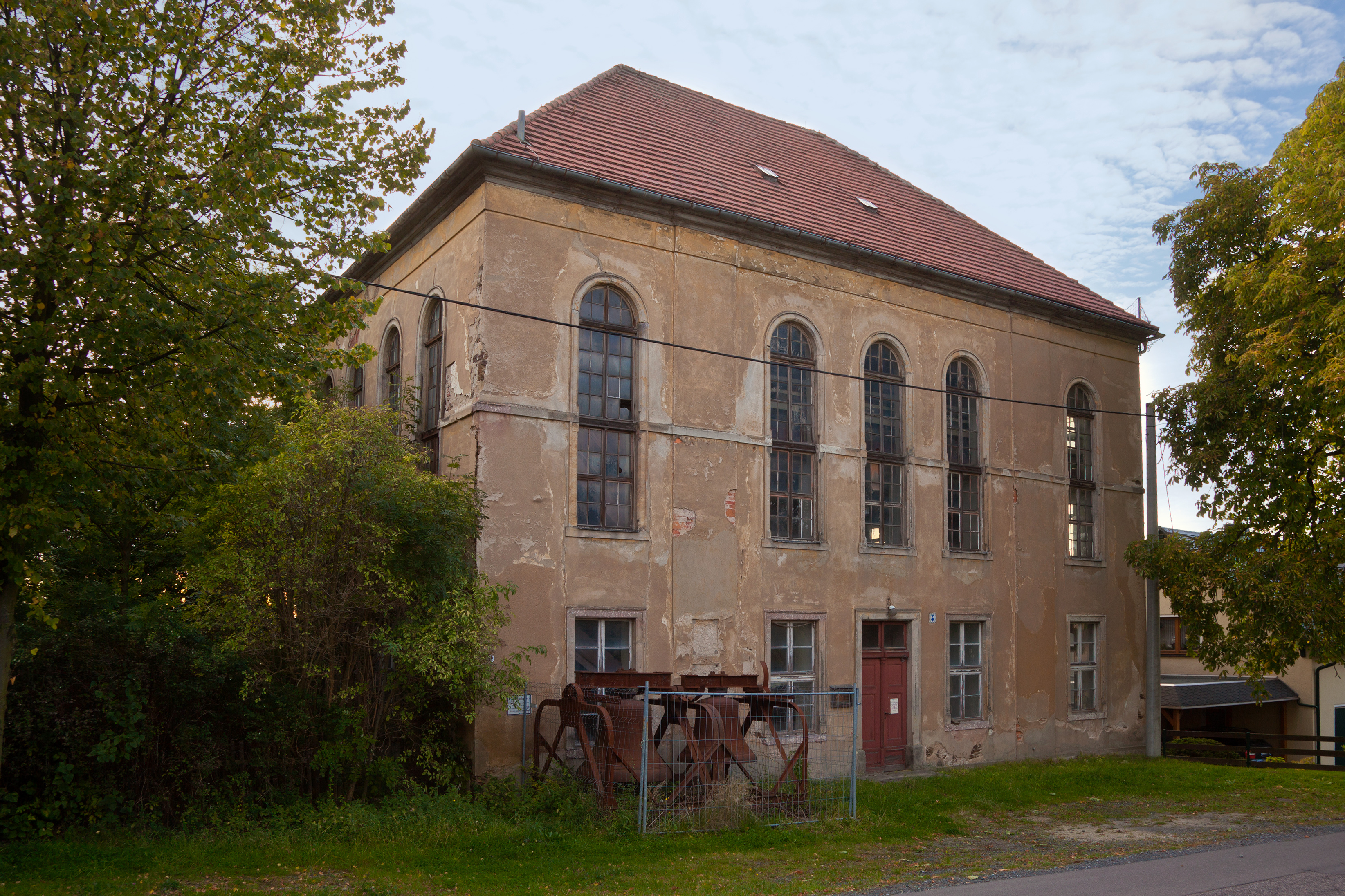 Bräunsdorf (Oberschöna), church